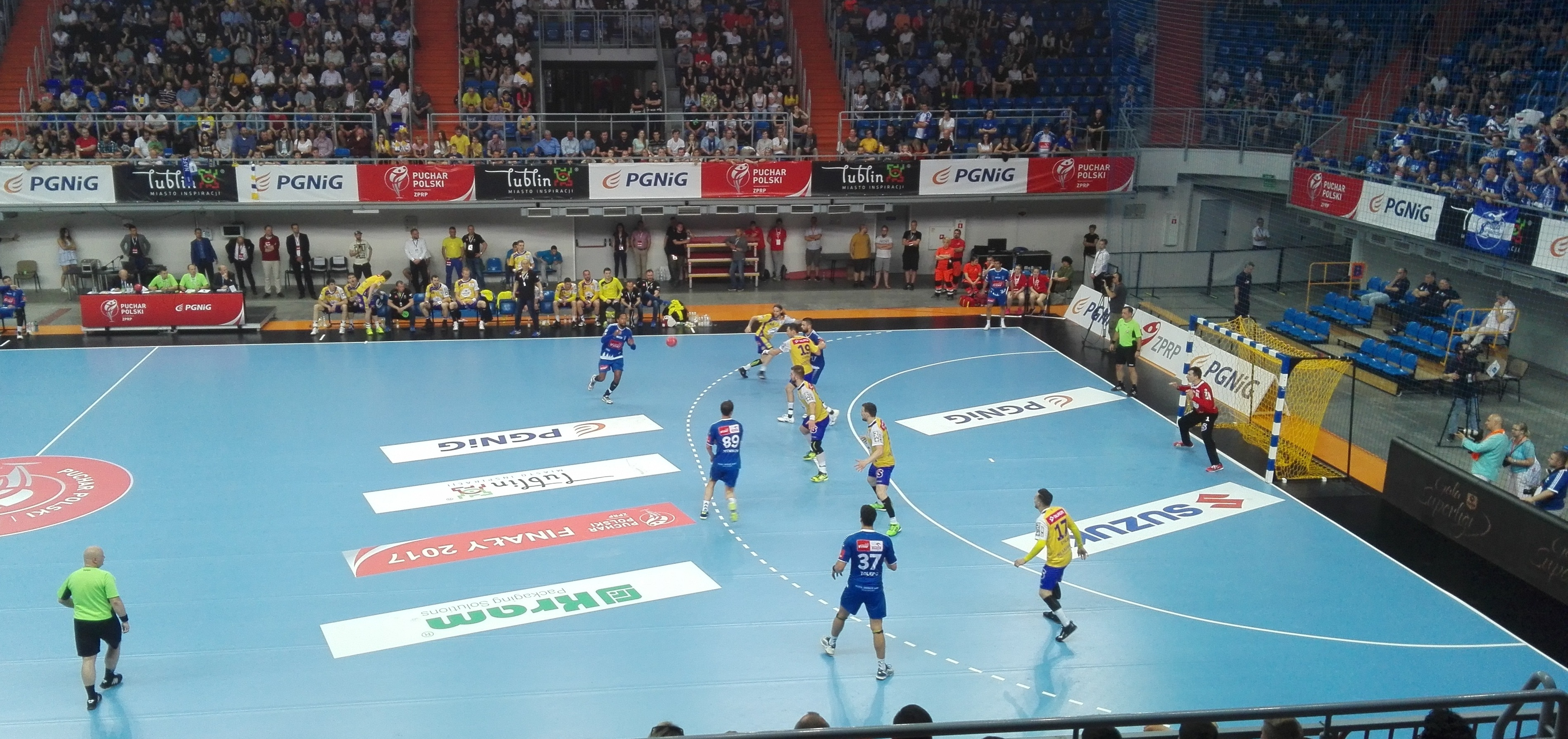 Polish Cup final between Vive Tauron Kielce and Wisła Płock in Globus Hall, Lublin.